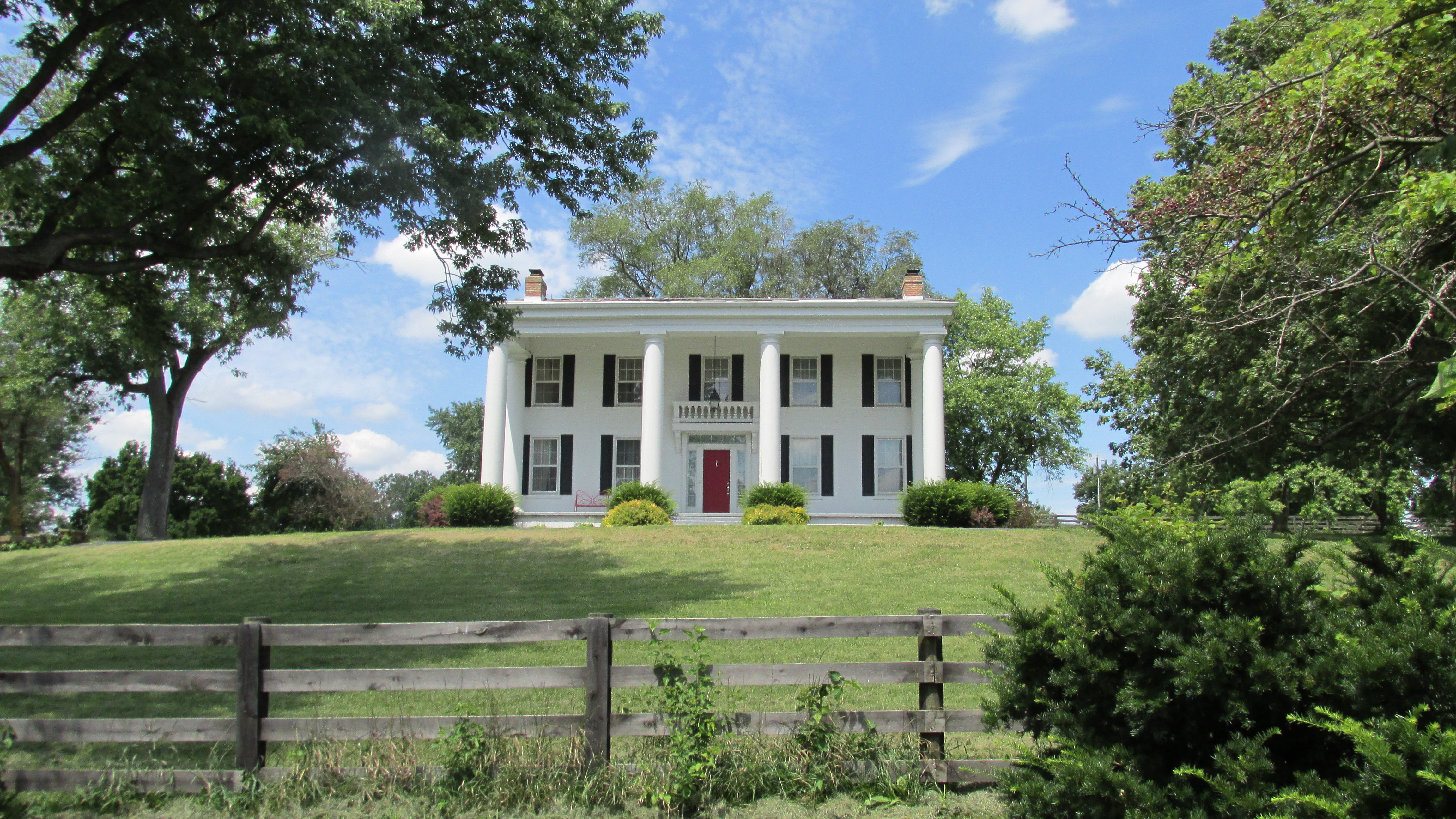 The William McCafferty house located at 7099 Ohio Highway 207 near Pancoastburg, Ohio.